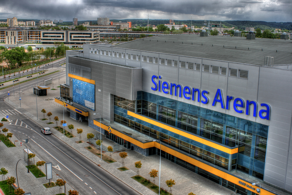 Siemens Arena, Vilnius, Lithuania